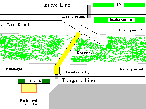 Tsugaru Imabetsu Station, Tsugaru Futamata Station and Michinoeki Imabetsu